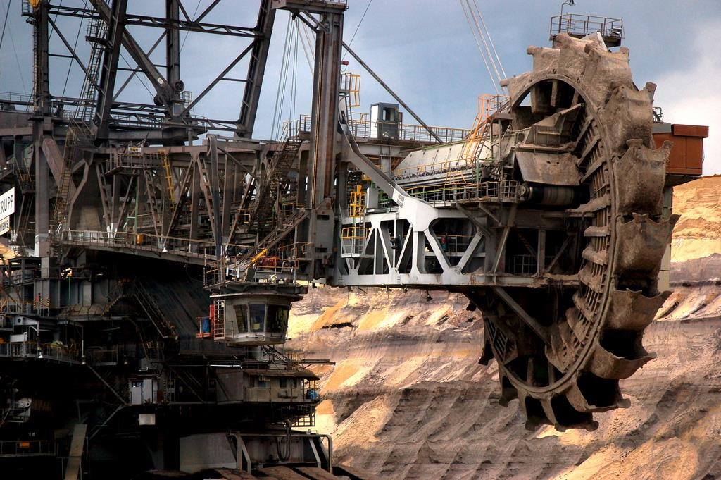 Bucket-wheel excavator, Greek lignite mine